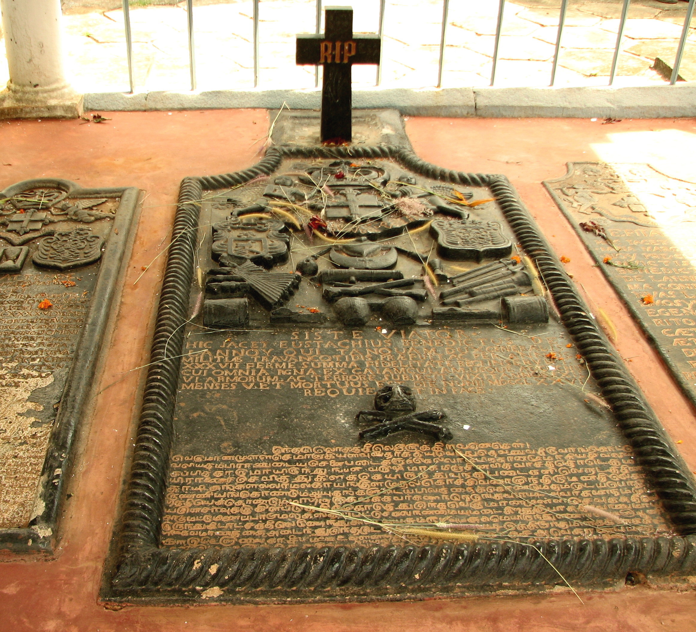 self-made photograph ; Author's Name : Infocaster